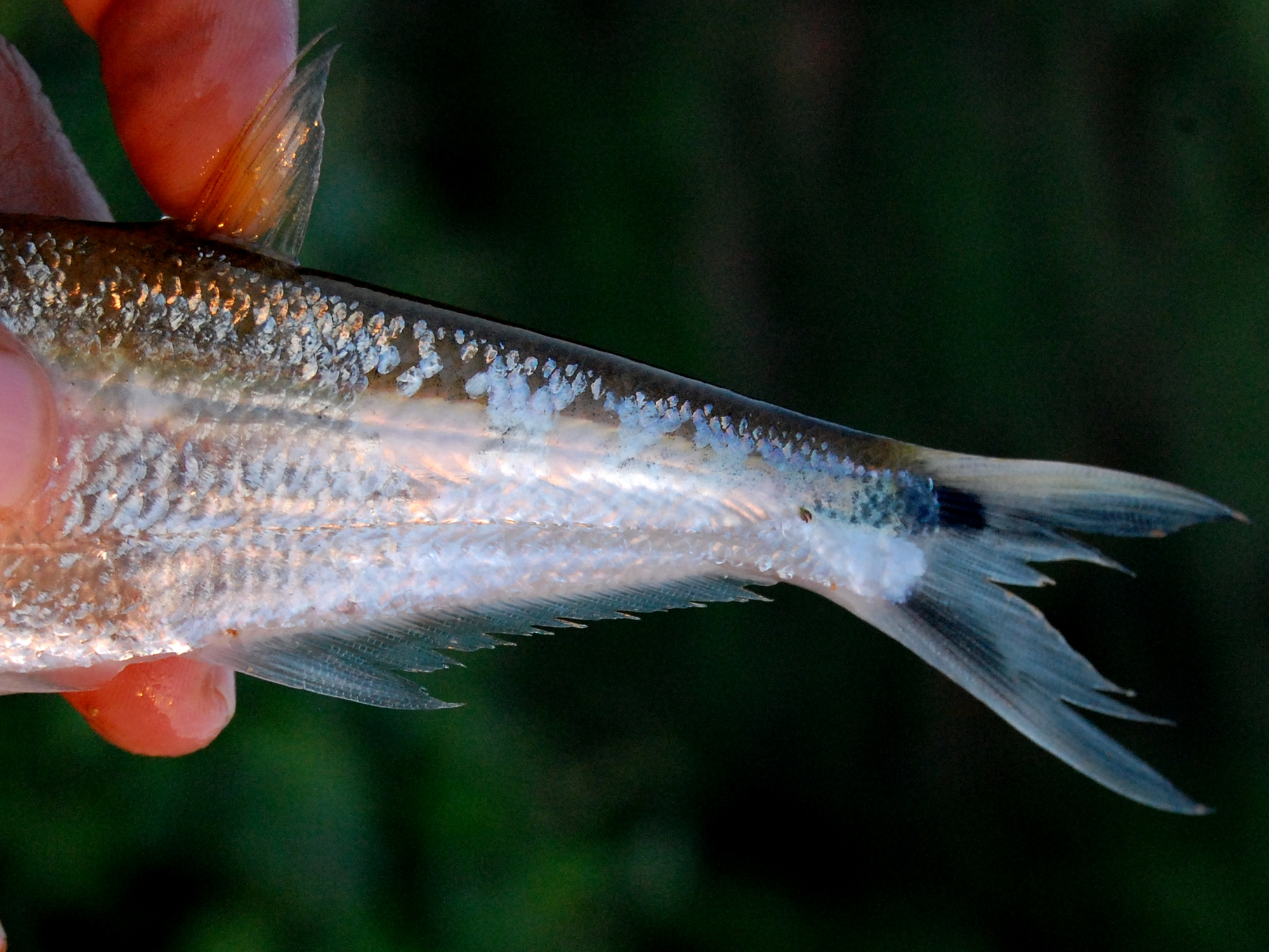 Oxygaster anomalura, 151 mm SL (standard length); posterior part. From Kawan Batu River (tributary of Mentaya River), Upper Seruyan, Central Kalimantan, Indonesia.